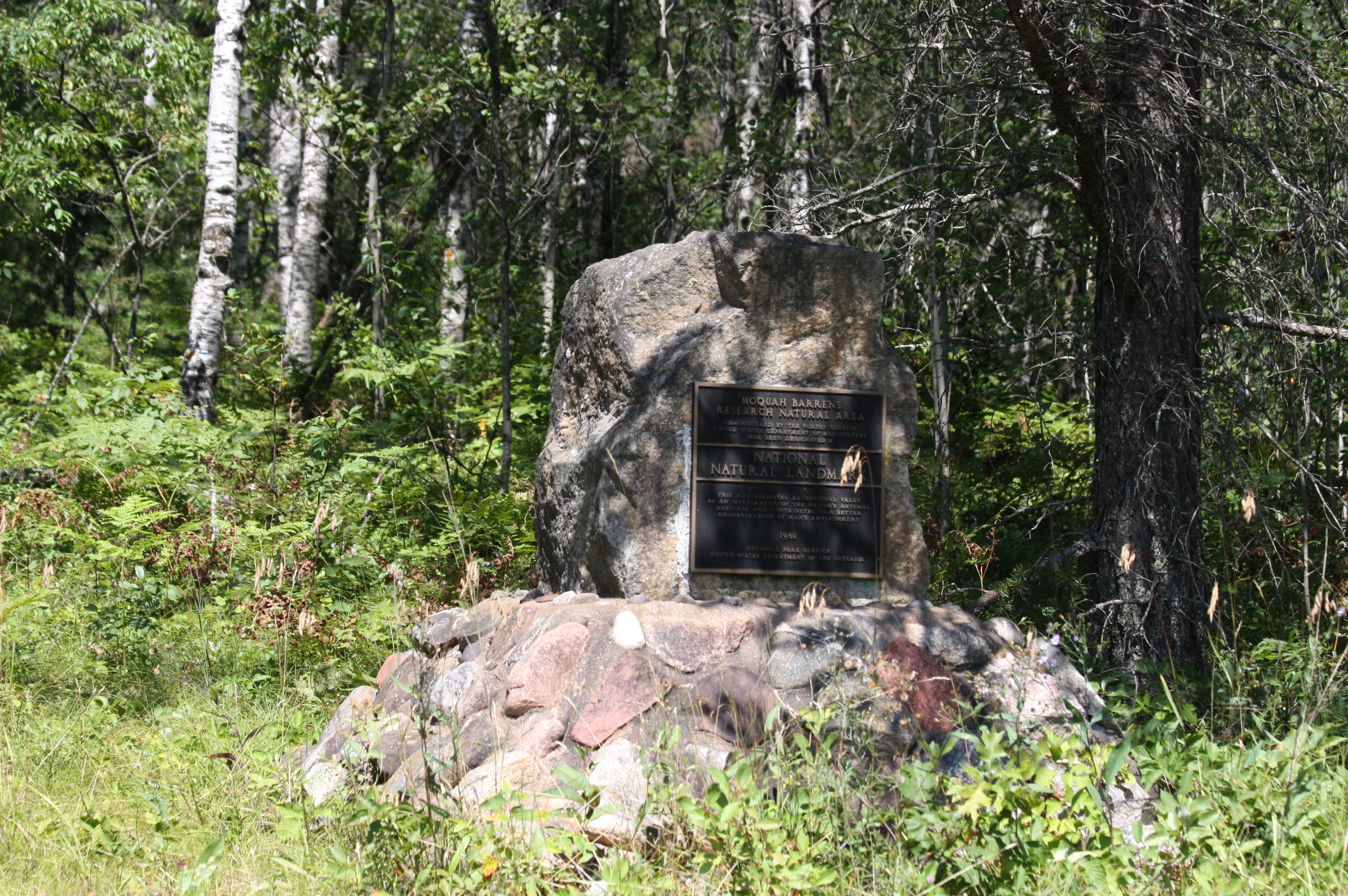 The "National Natural Landmark" sign for the Moquah Barrens Research Natural Area with trees in the research area in the background.